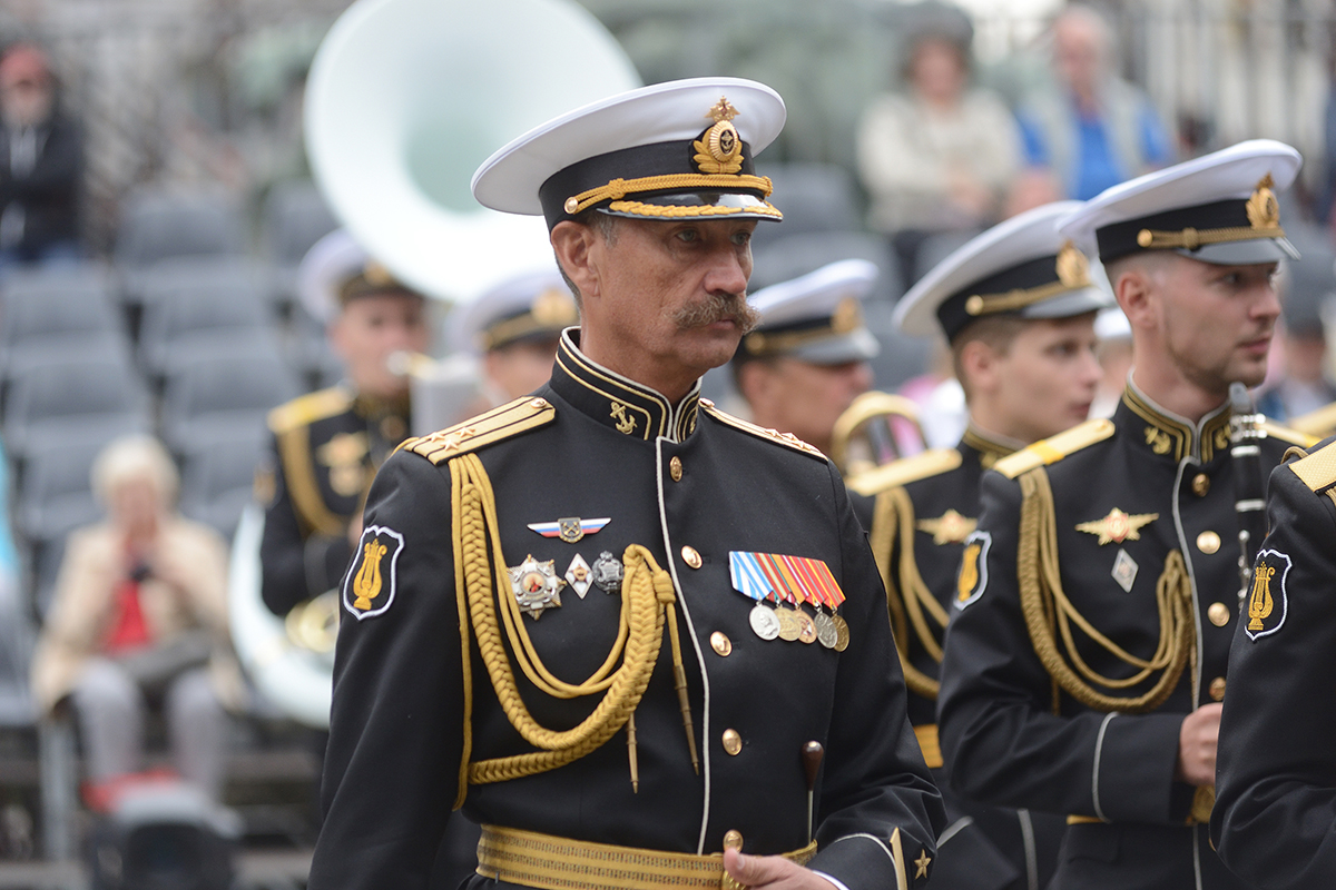 Участие Центрального концертного образцового оркестра им. Н.А.Римского-Корсакова Военно-Морского Флота в торжественных мероприятиях, посвященных 74-й годовщине освобождения от нацистов г.Антверпен (Бельгия)